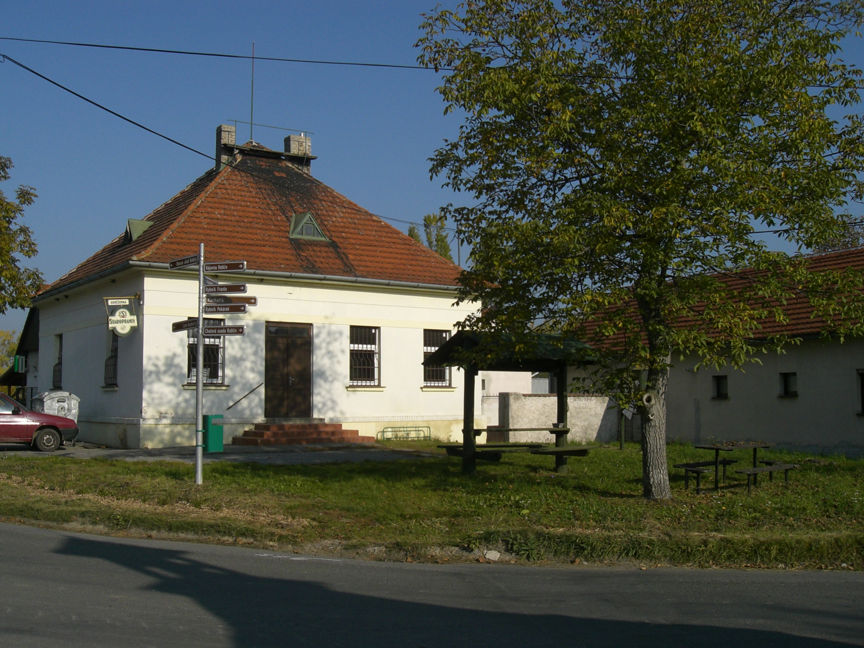 Roblín village in district Praha-Západ, Czech Republic.